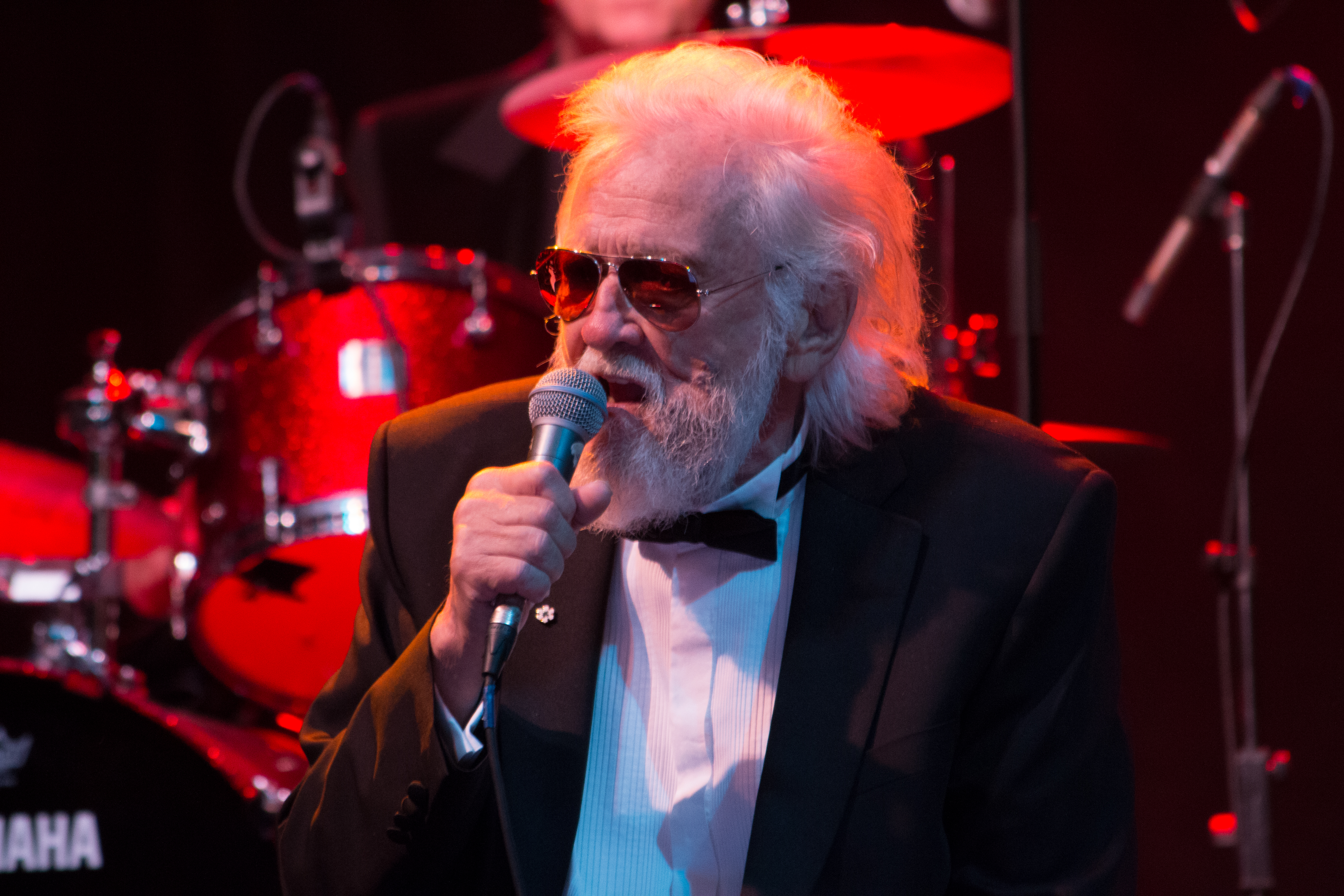 Ronnie Hawkins performing at the Hamilton Festival of Friends at the Ancaster Fairgrounds